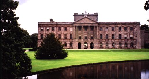 Lyme Park Cheshire.